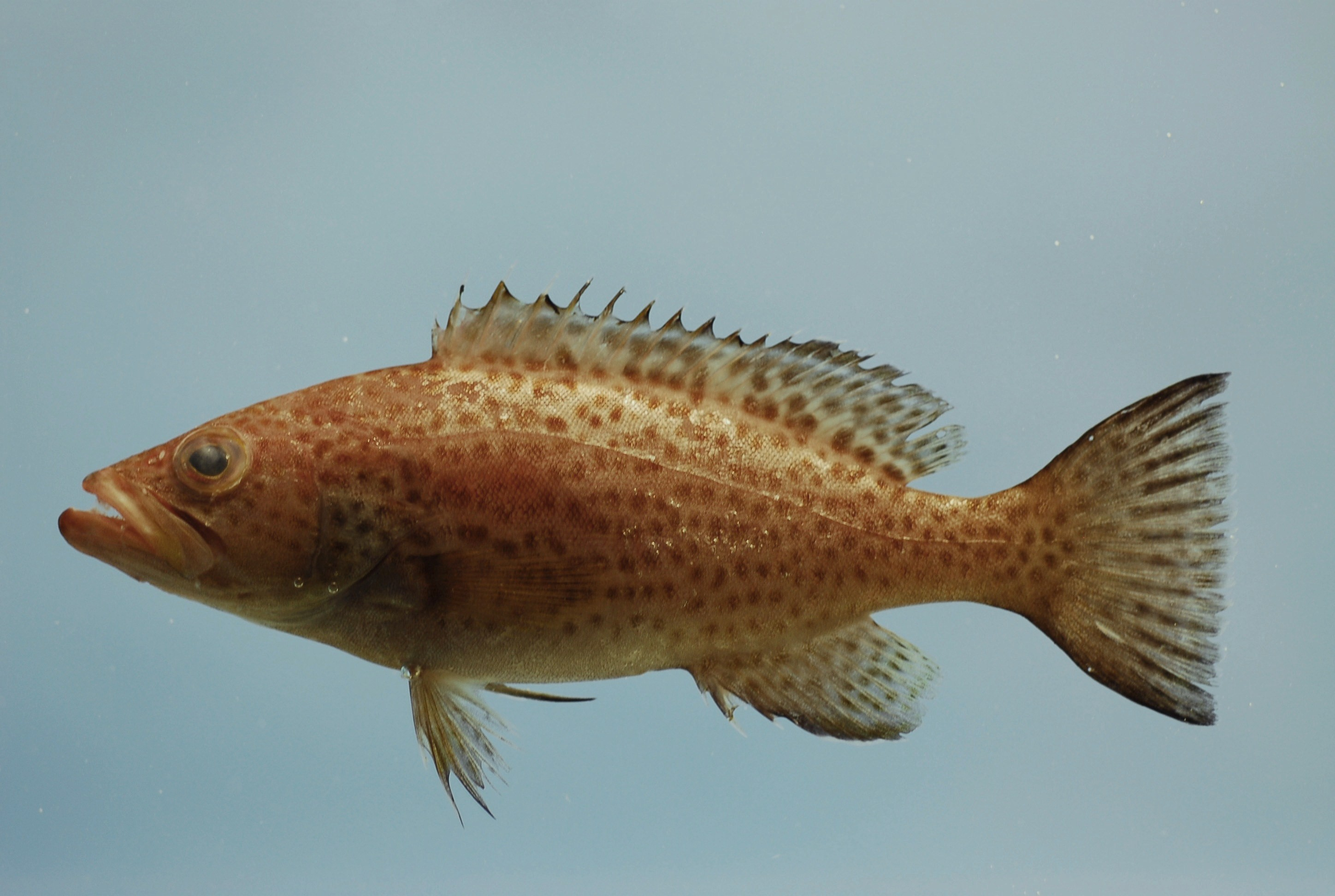 Juvenile scamp ( Mycteroperca phenax ). Gulf of Mexico.